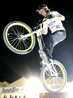 Vittorio Brumotti, bike trial world champion